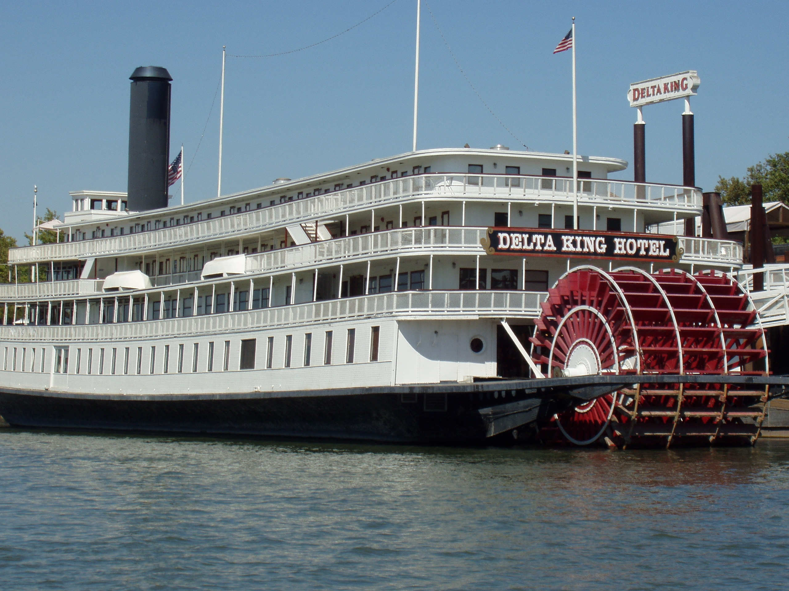 The Paddlewheeler Delta King, permanently moored in Sacramento